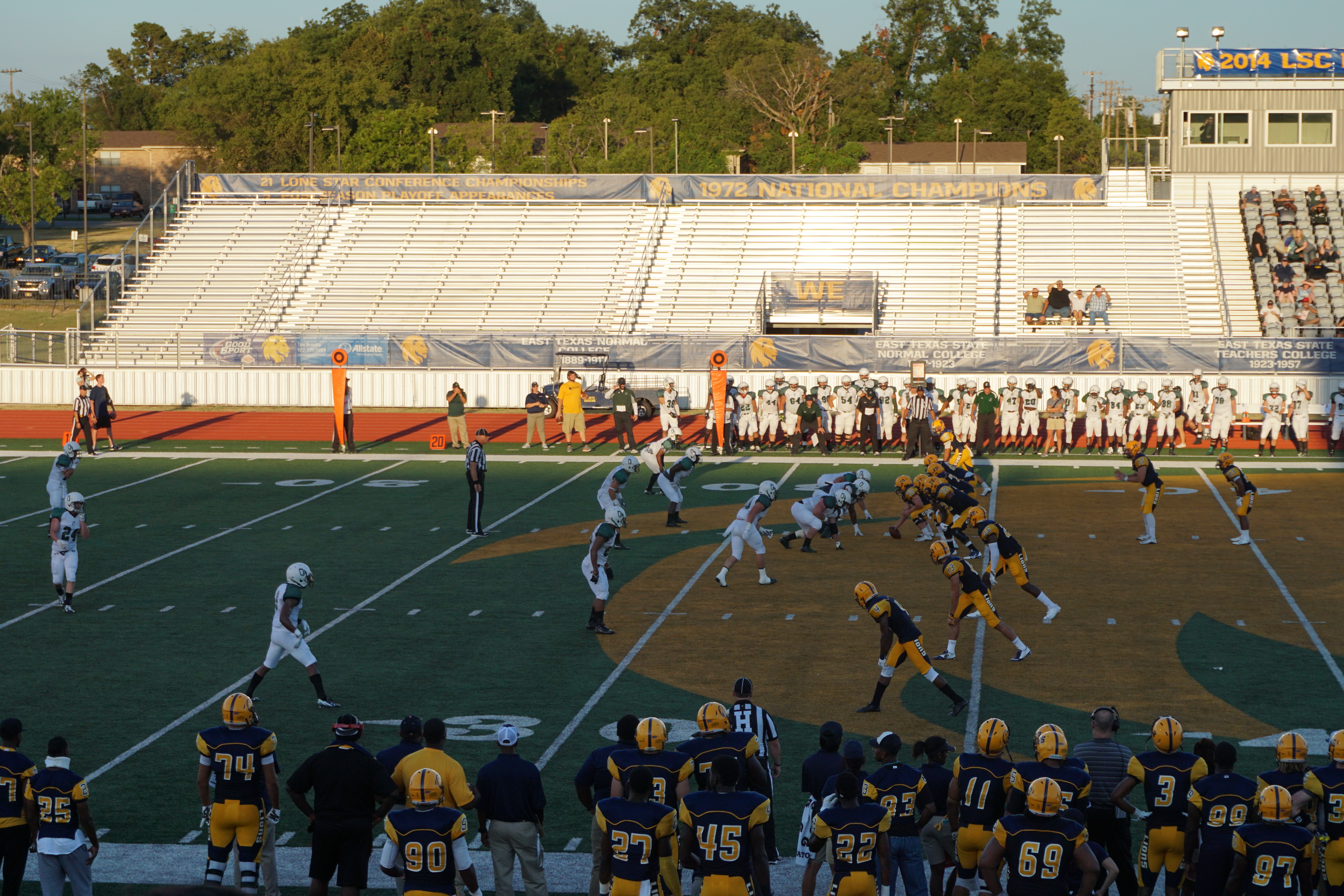 A&M–Commerce on offense during the Adams State Grizzlies vs. Texas A&M–Commerce Lions football game at Memorial Stadium in Commerce, Texas (United States). A&M–Commerce won 48–17.